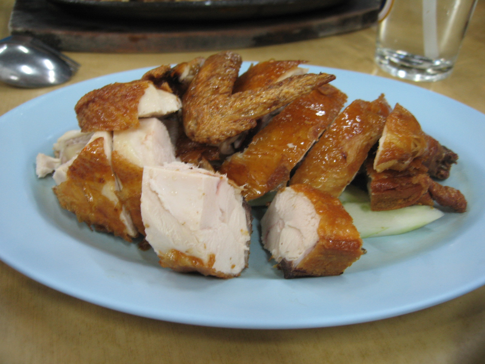 Crispy roast chicken from a kopitiam in Johor Bahru.